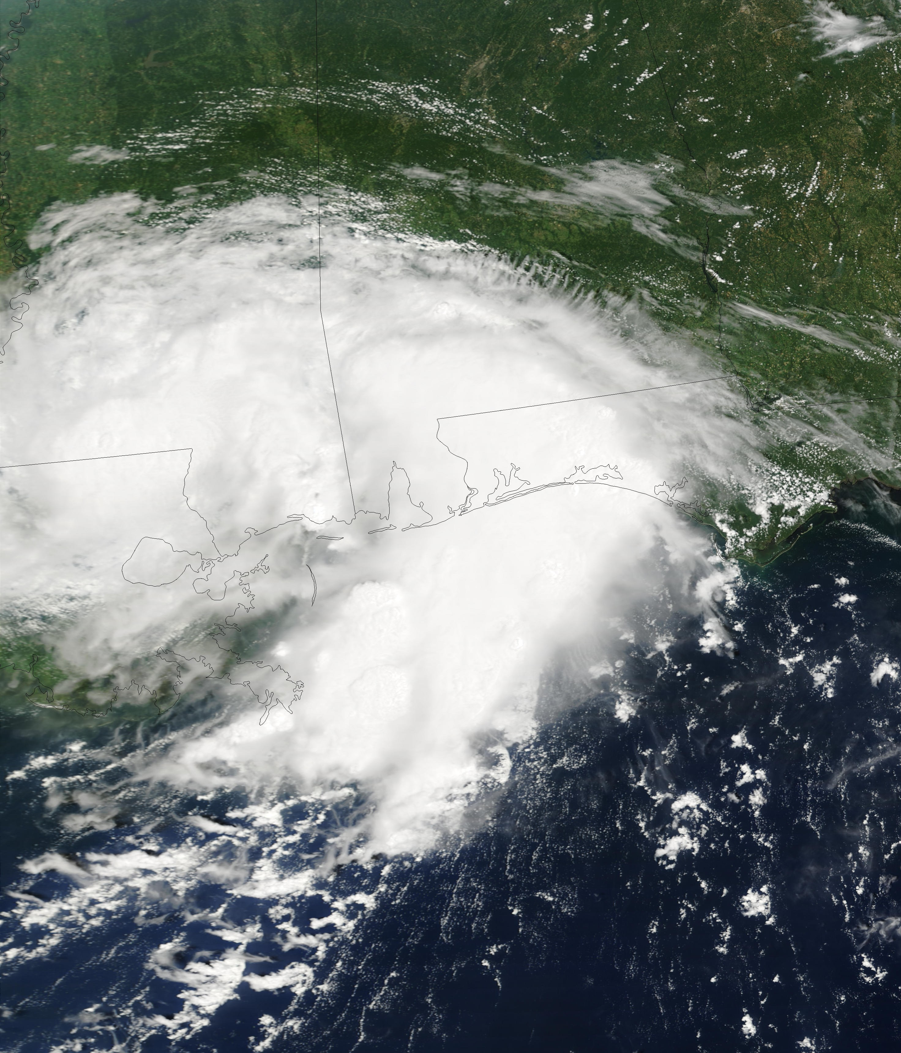 Remnants of Tropical Storm Bertha dumped heavy rains across parts of Louisiana and Mississippi on August 5, 2002. As much as 6.73 inches of rain fell in Pascagoula, Miss., according to news reports. In the original satellite view, another tropical depression formed off the coast of South Carolina on Aug. 5 and was gathering strength. As of Aug. 6, the storm had maximum sustained winds of 35 mph, just 4 mph short of becoming a tropical storm, and was moving slowly eastward. If it continues to intensify, it will become Tropical Storm Cristobol.